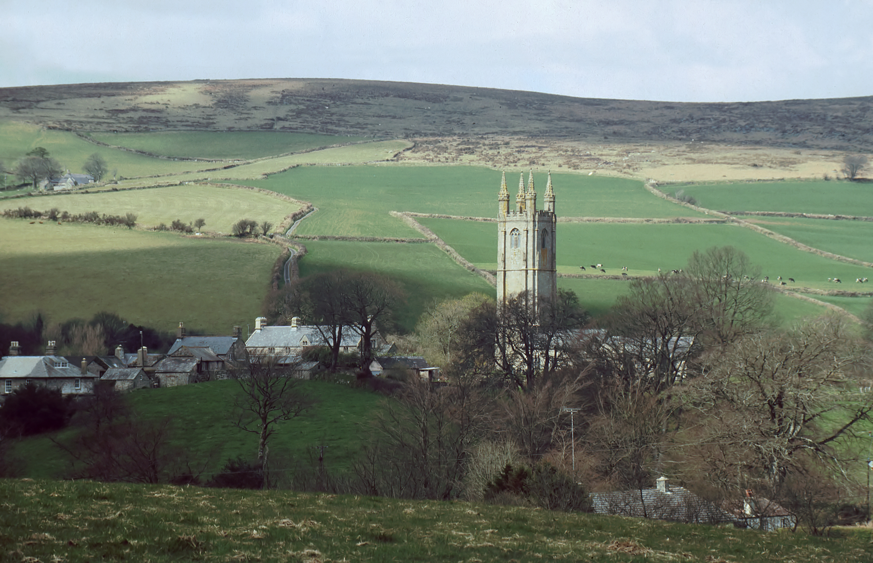 Village of Widecombe-in-the-Moor, located in Dartmoor, Devon/UK